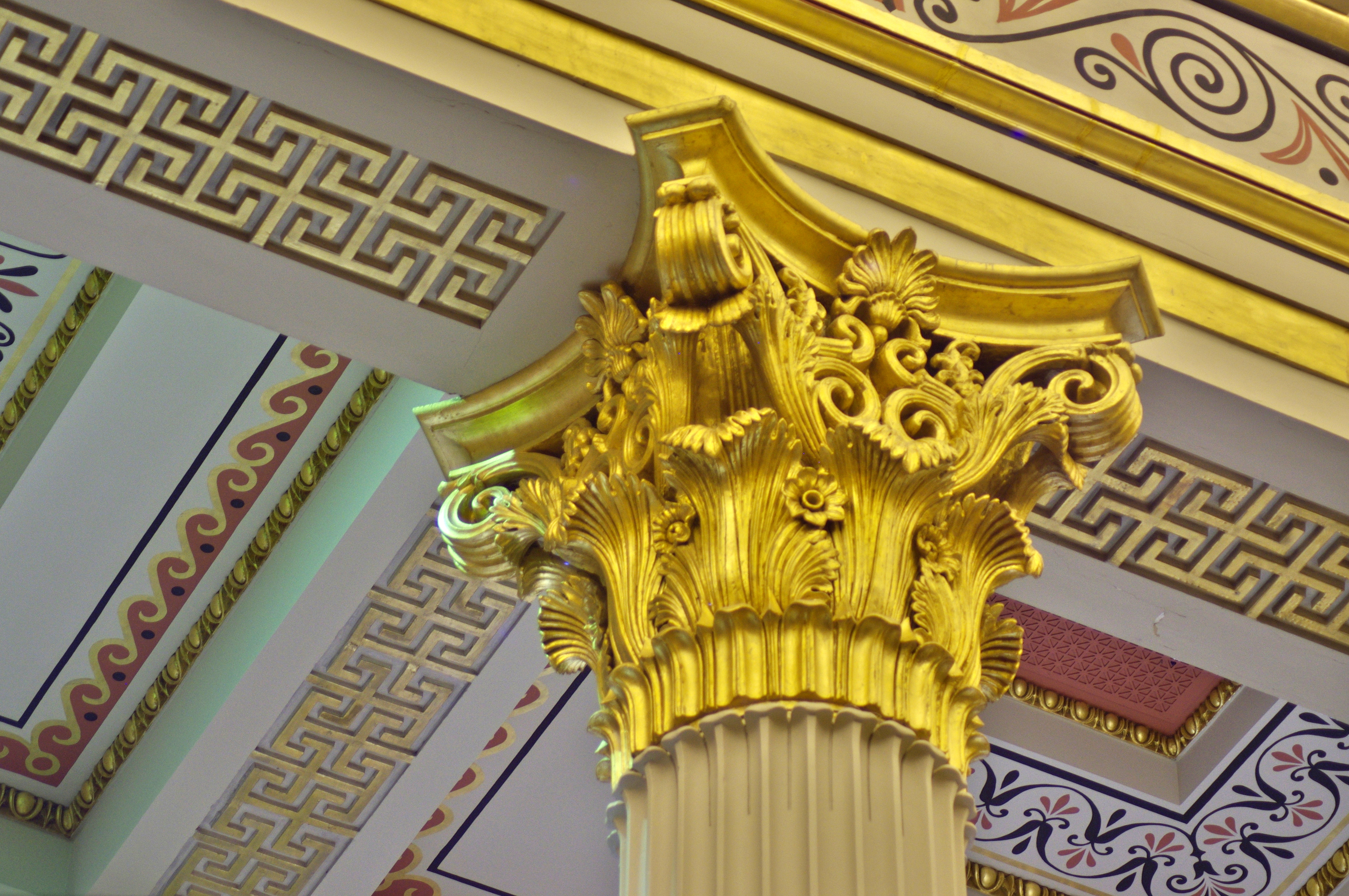 Saint Peter in Chains Cathedral (Cincinnati, Ohio) - interior, column capital